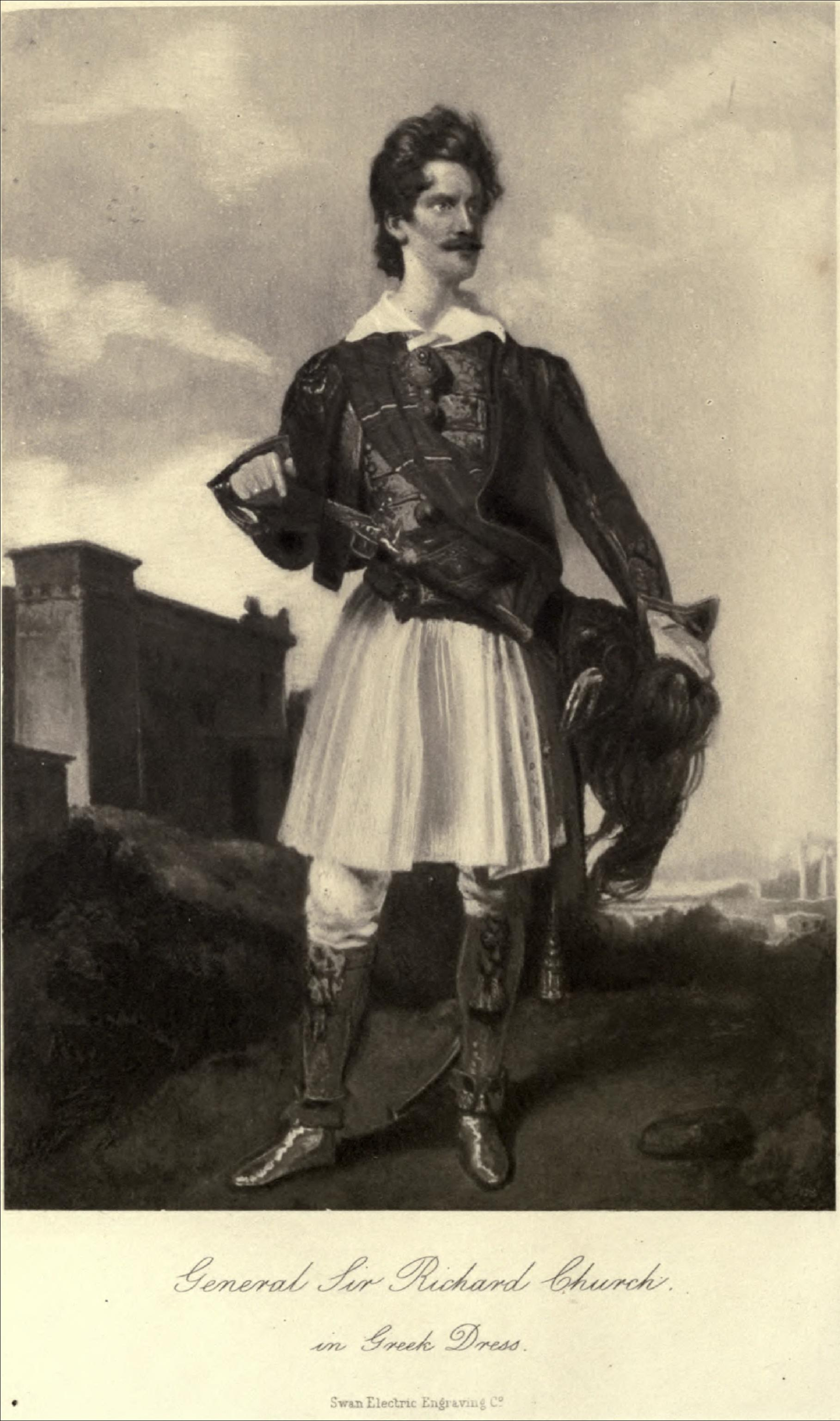 General Sir Richard Church in Greek Dress